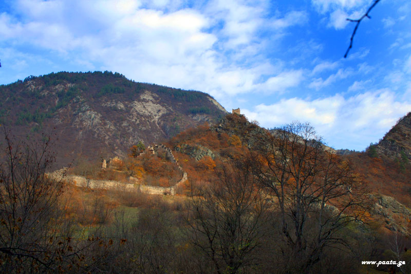 Rkoni castle in Kaspi municipality, Georgia